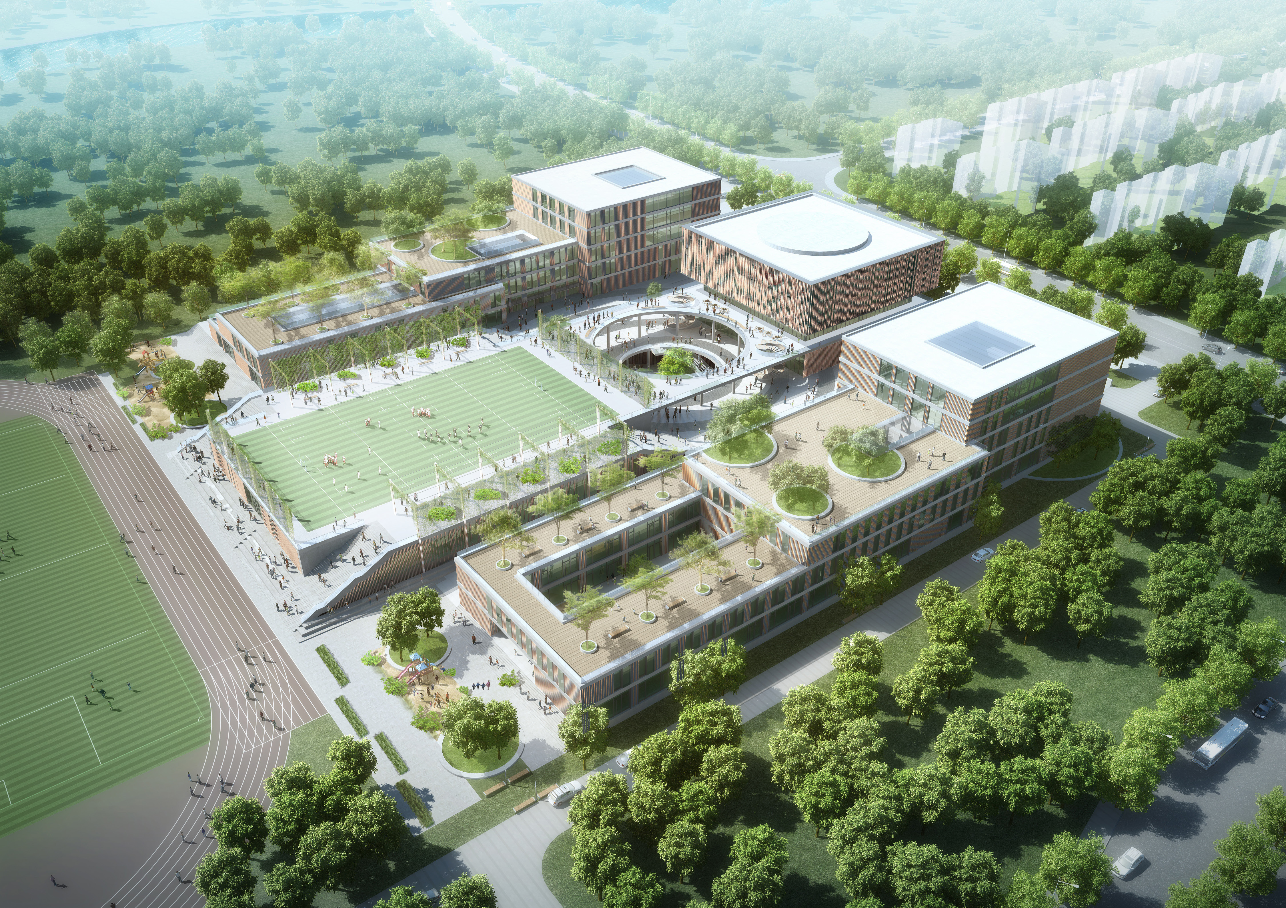 EuroCampus Yangpu - Lycée Français de Shanghai/German School Shanghai